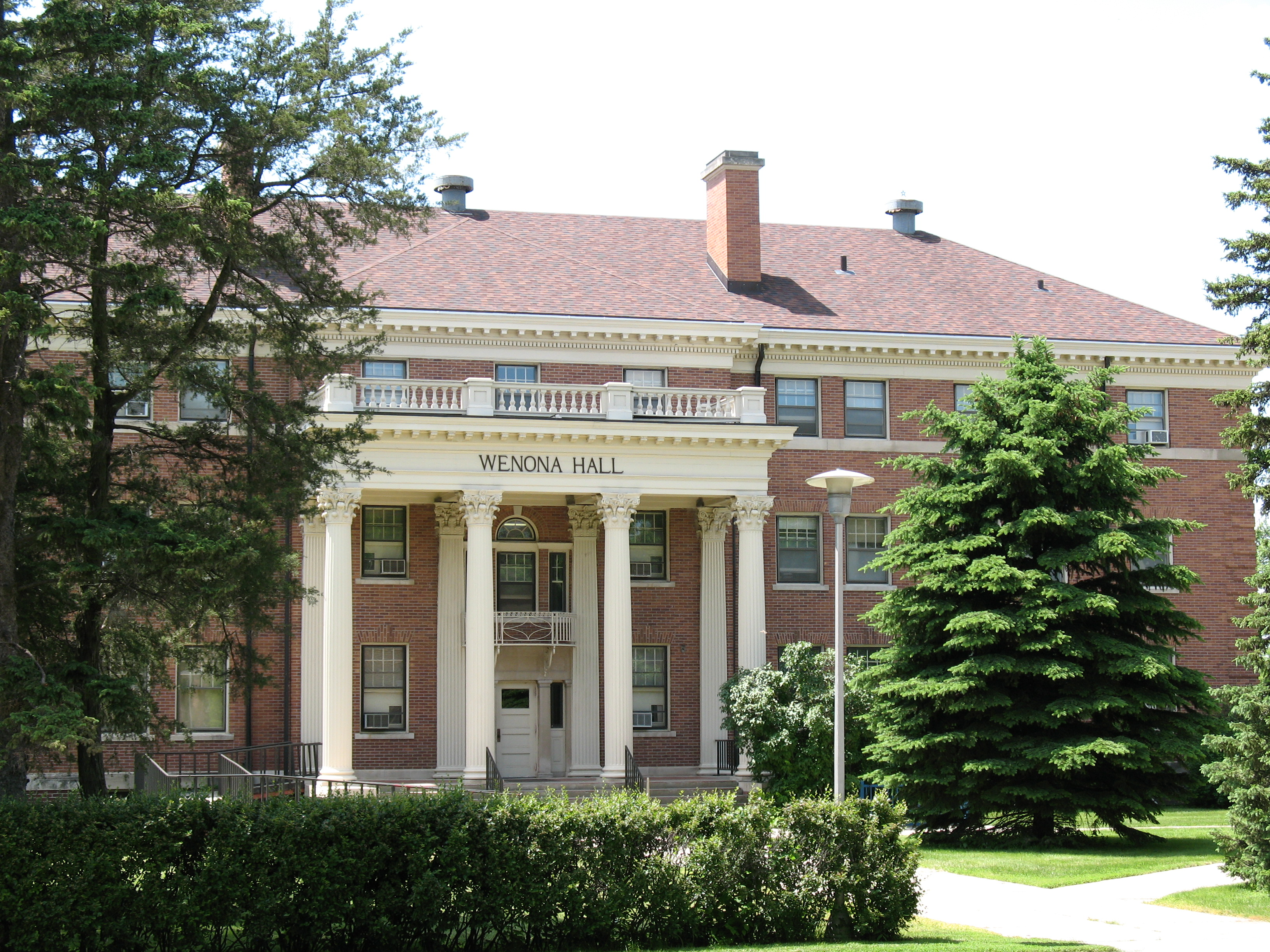 Wenona Hall on the SDSU campus in Brookings, South Dakota.